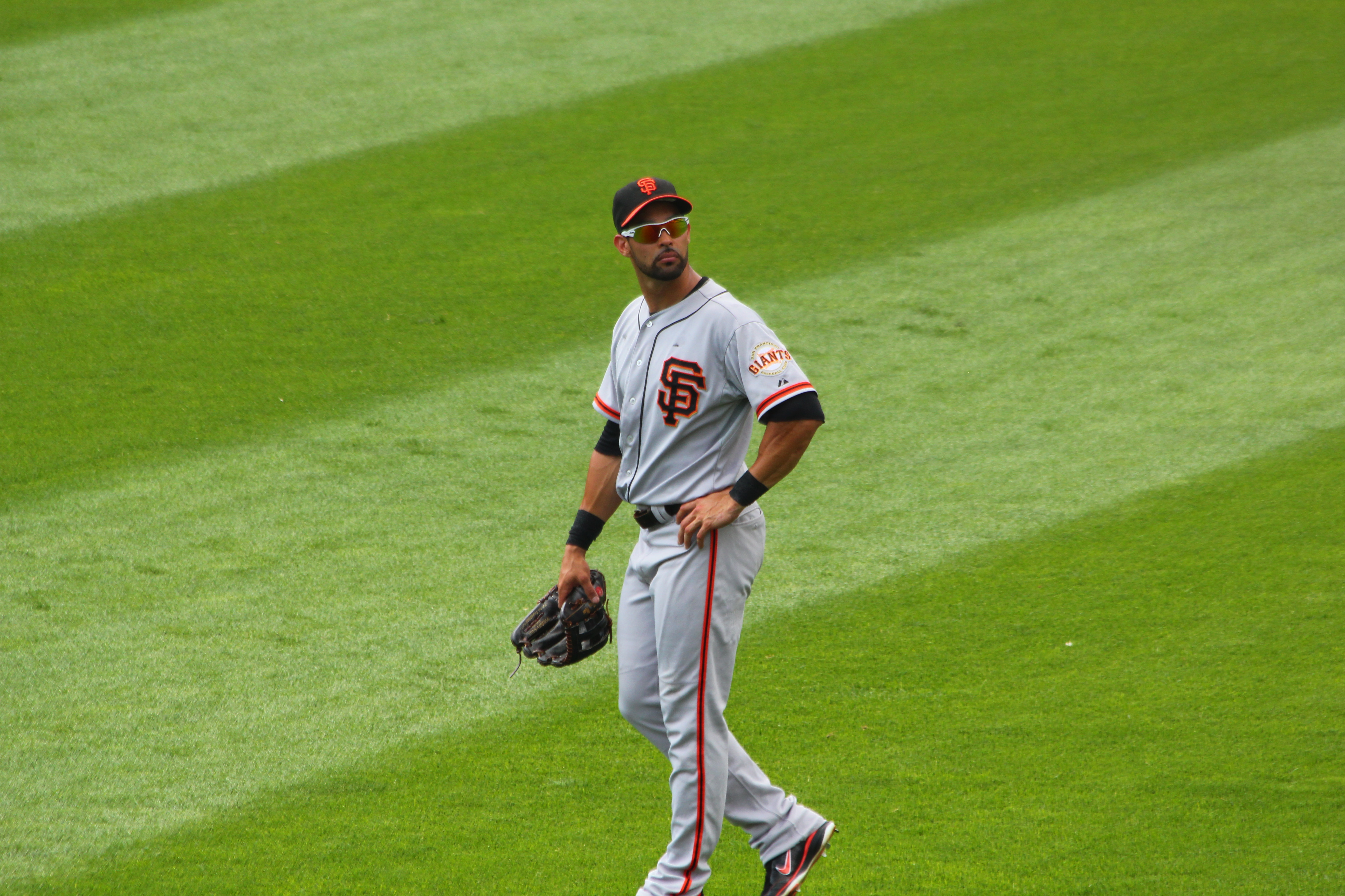 Angel Pagan in the outfield for the San Francisco Giants during a game at PNC Park in Pittsburgh, PA on Sunday, July 8, 2012.